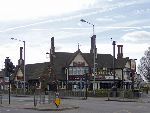 The Southbury public house, Southbury Road, Enfield The Southbury public house, on the corner of Southbury Road and Clive Road is now a Thai restaurant.